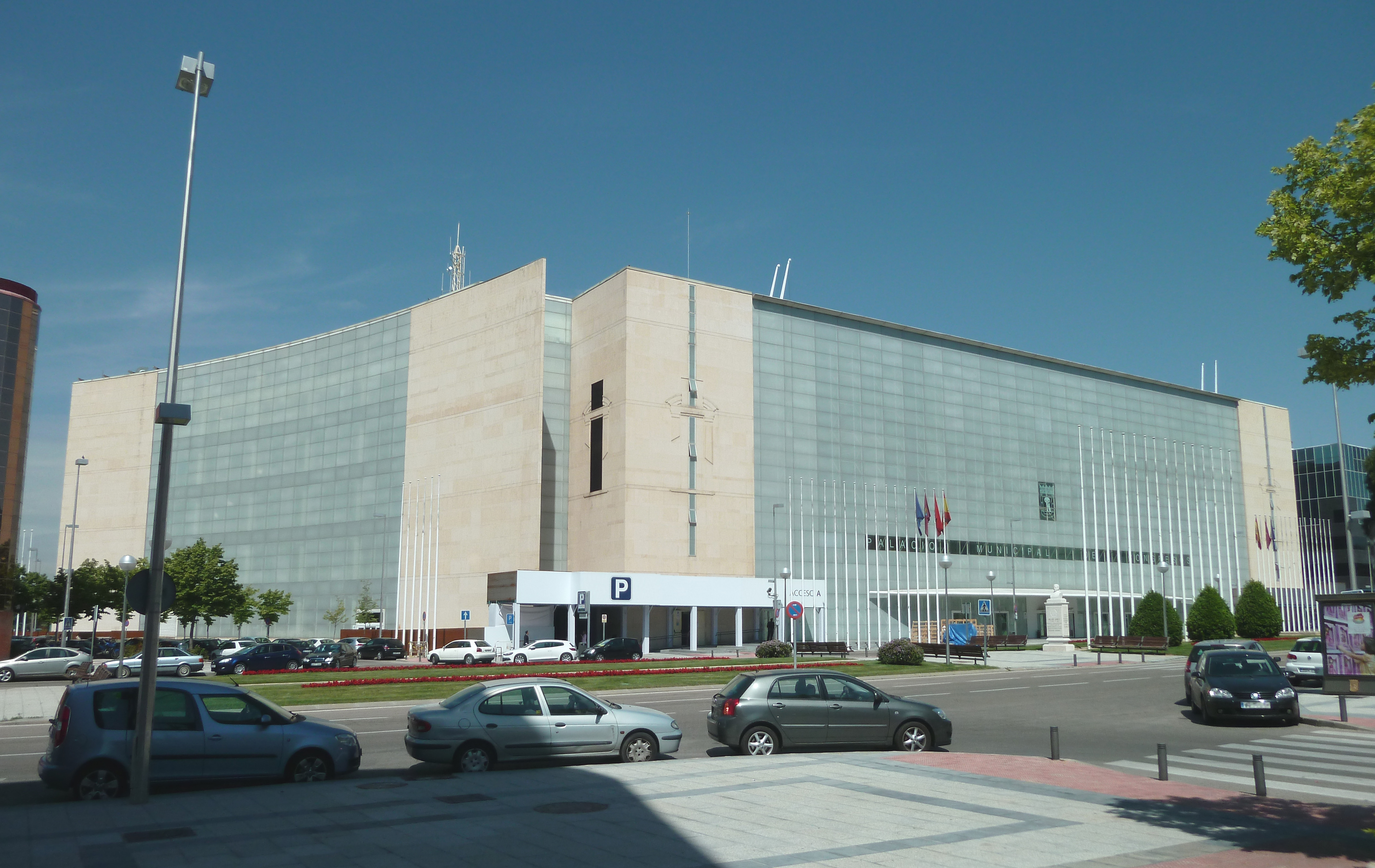 Façade of Palacio Municipal de Congresos (a convention centre) in Madrid (Spain).